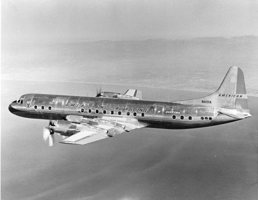 PictionID:54641216 - Catalog:22_000060.tif - Title:Lockheed L-188 Electra N6101A American AL - Filename:22_000060.tif - Image from the Arkansas Aviation Historical Society, which donated a large collection of archival material to the San Diego Air and Space Museum in 2016--Please Tag these images so that the information can be permanently stored with the digital file.---Repository: San Diego Air and Space Museum